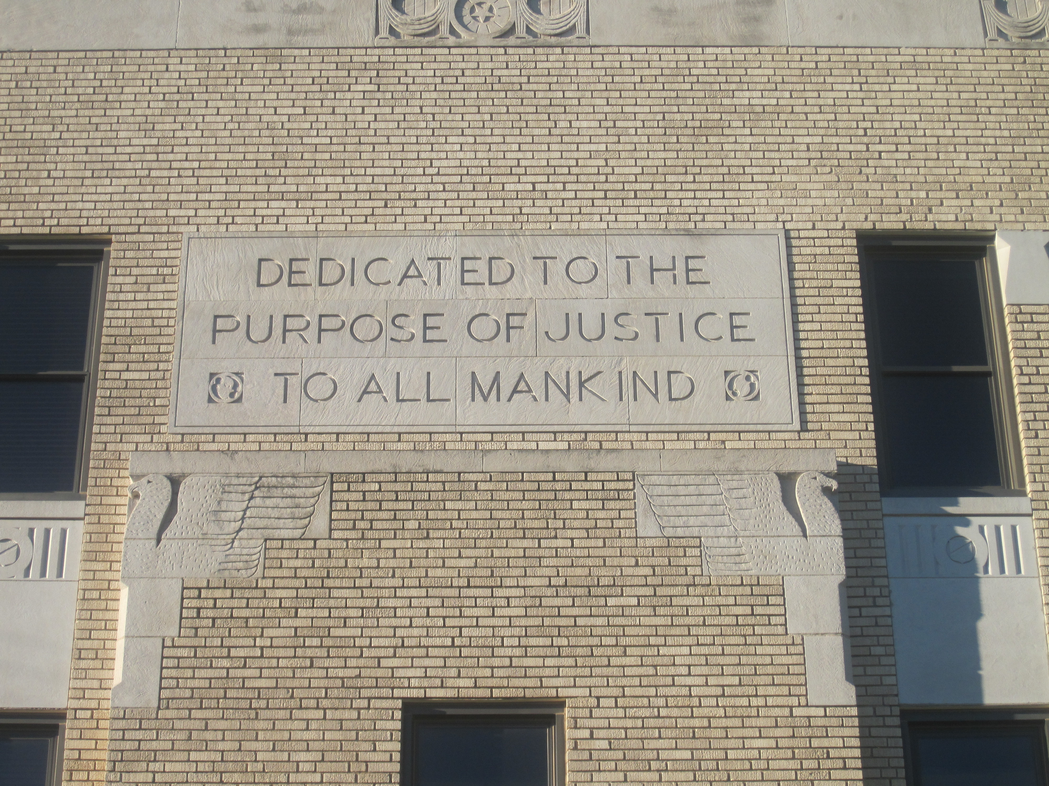 I took photo with Canon camera in Perryton, TX.